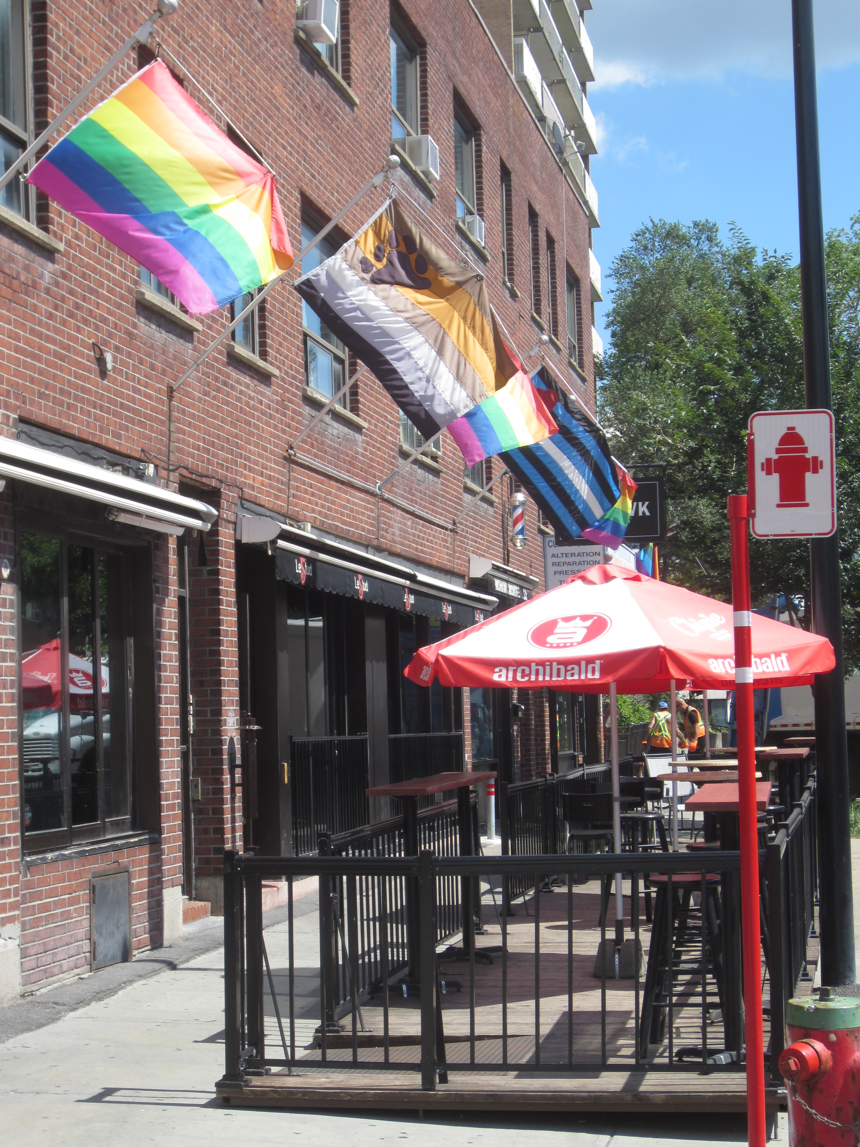 Le Stud, Montreal, August 2017